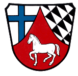 Coat of arms of Kirchdorf, Upper Bavaria.